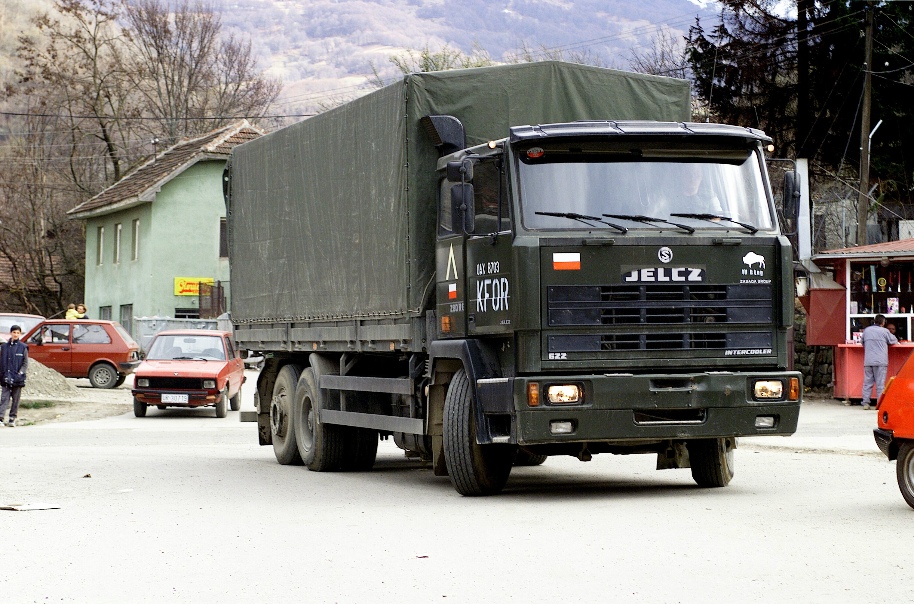 Six trucks from the Polish-Ukrainian Battalion (Polukrbat) transport food through Ukrainian observation point in Drajkovce, Kosovo, on March 21, 2001. This humanitarian aid is for the Serbian people of Strpce, Kosovo, from the German Red Cross.